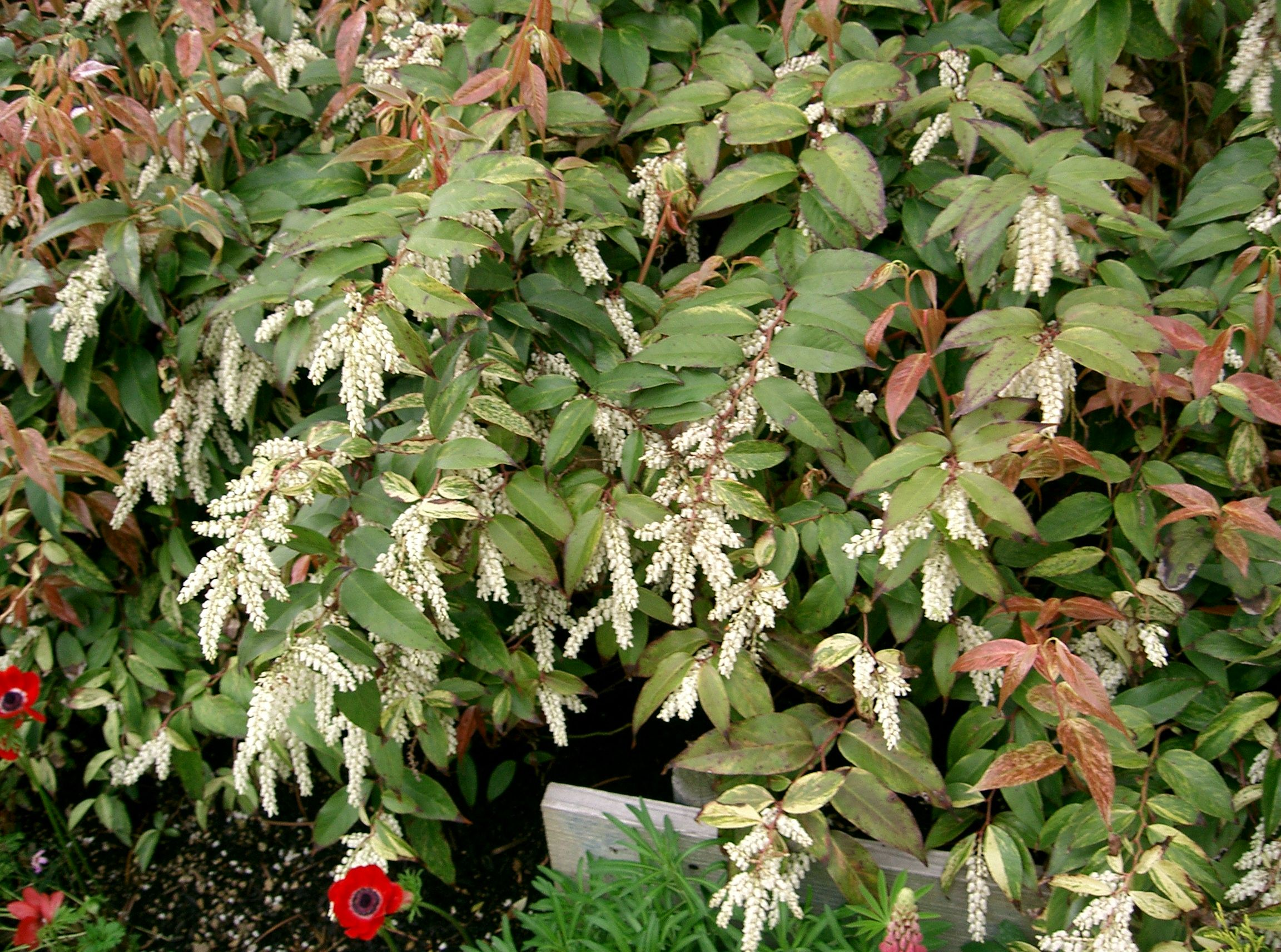 Leucothoe catesbaei 'Rainbow'